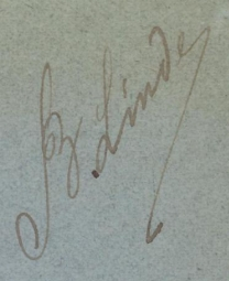 Autograph of Estonian literary scholar Bernhard Linde in a book from 1904. In most jurisdictions, signatures are not copyrighted.